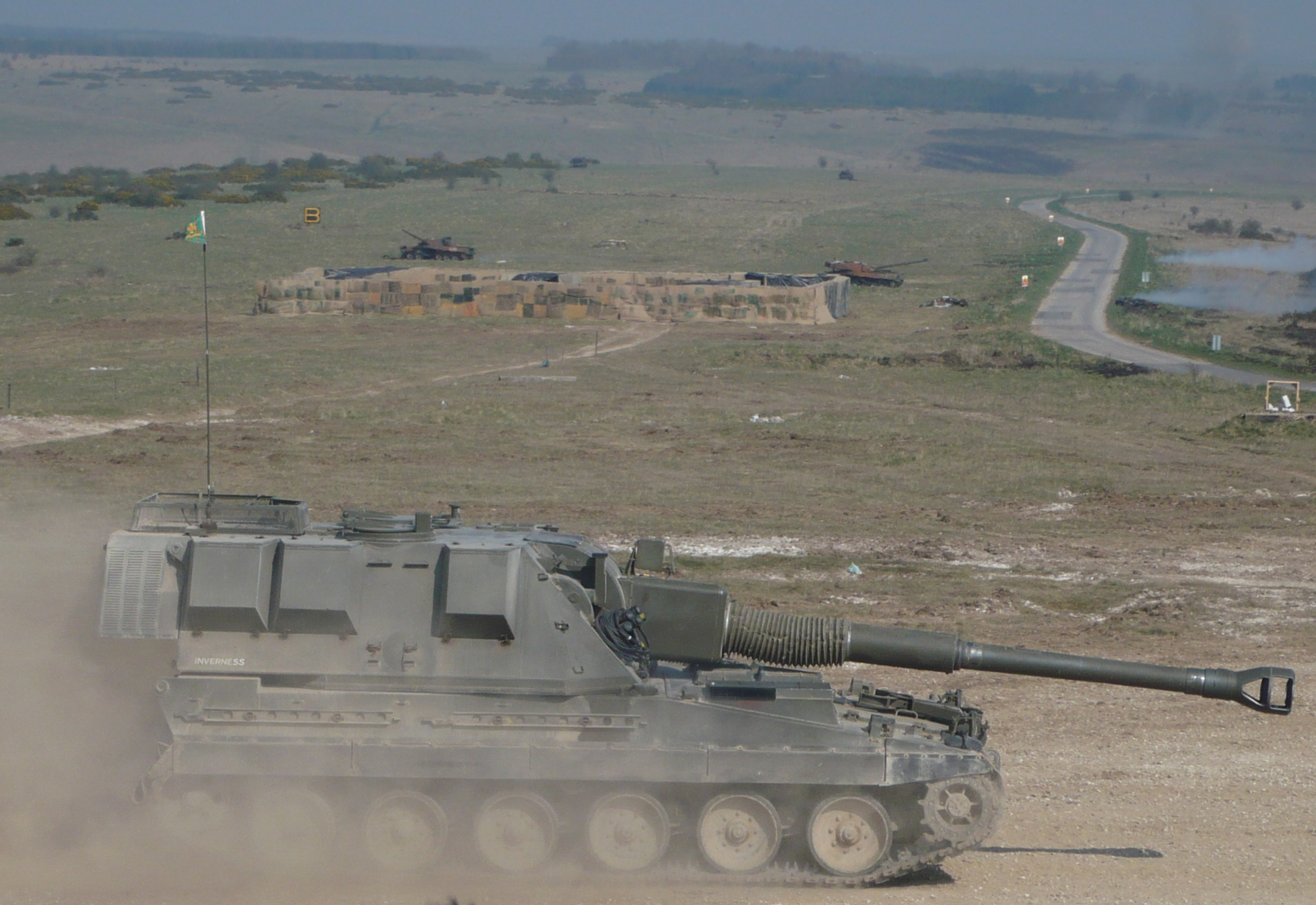 AS-90 Howitzer of the British Army